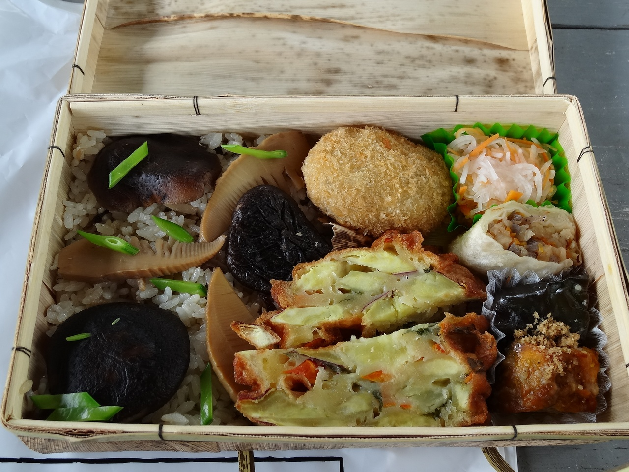 Ekiben "Kareigawa" (Kirishima City, Kagoshima Prefecture, Japan)